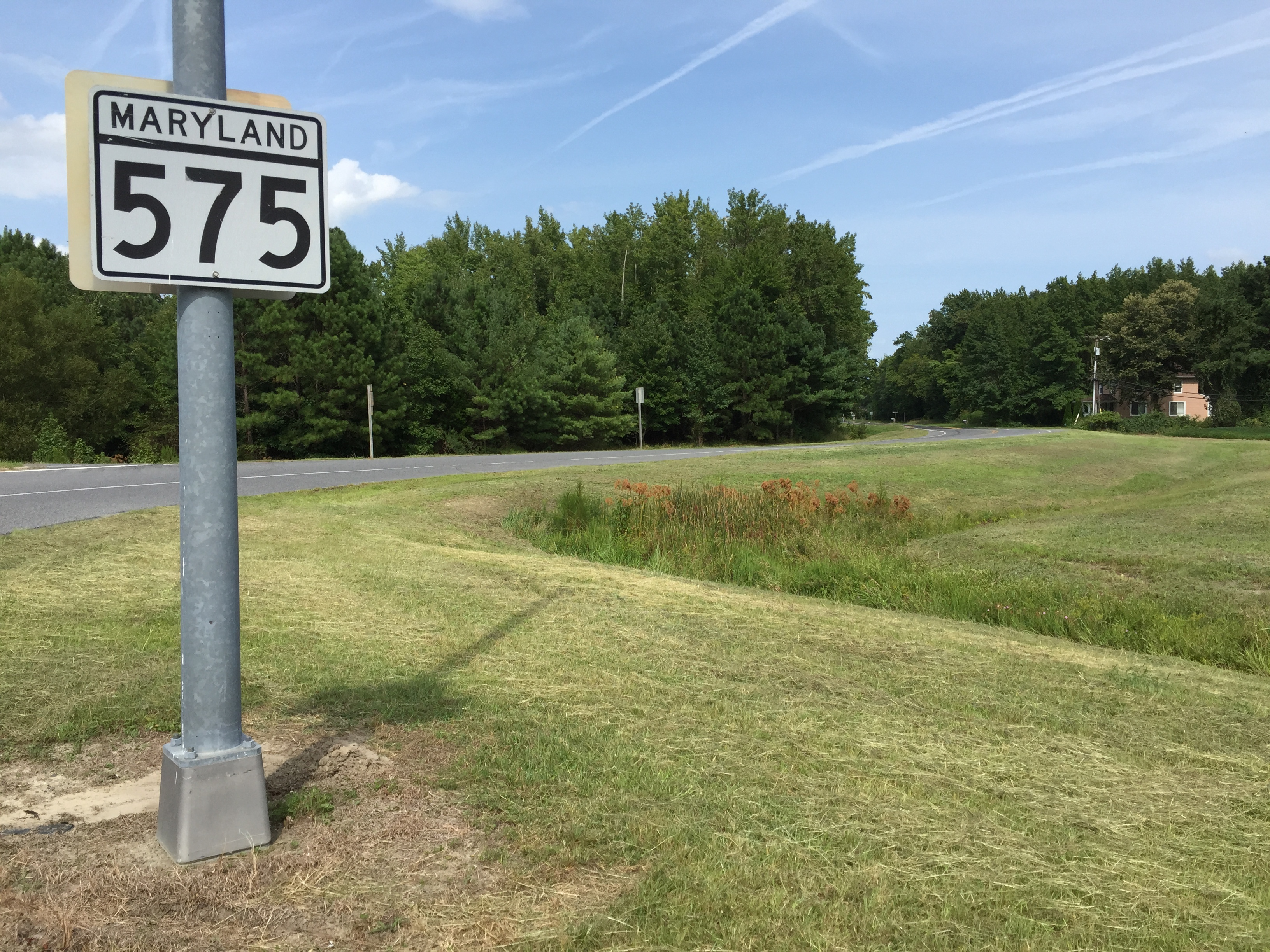 View north along Maryland State Route 575 (Worcester Highway) at U.S. Route 113 (Worcester Highway) in Jones, Worcester County, Maryland